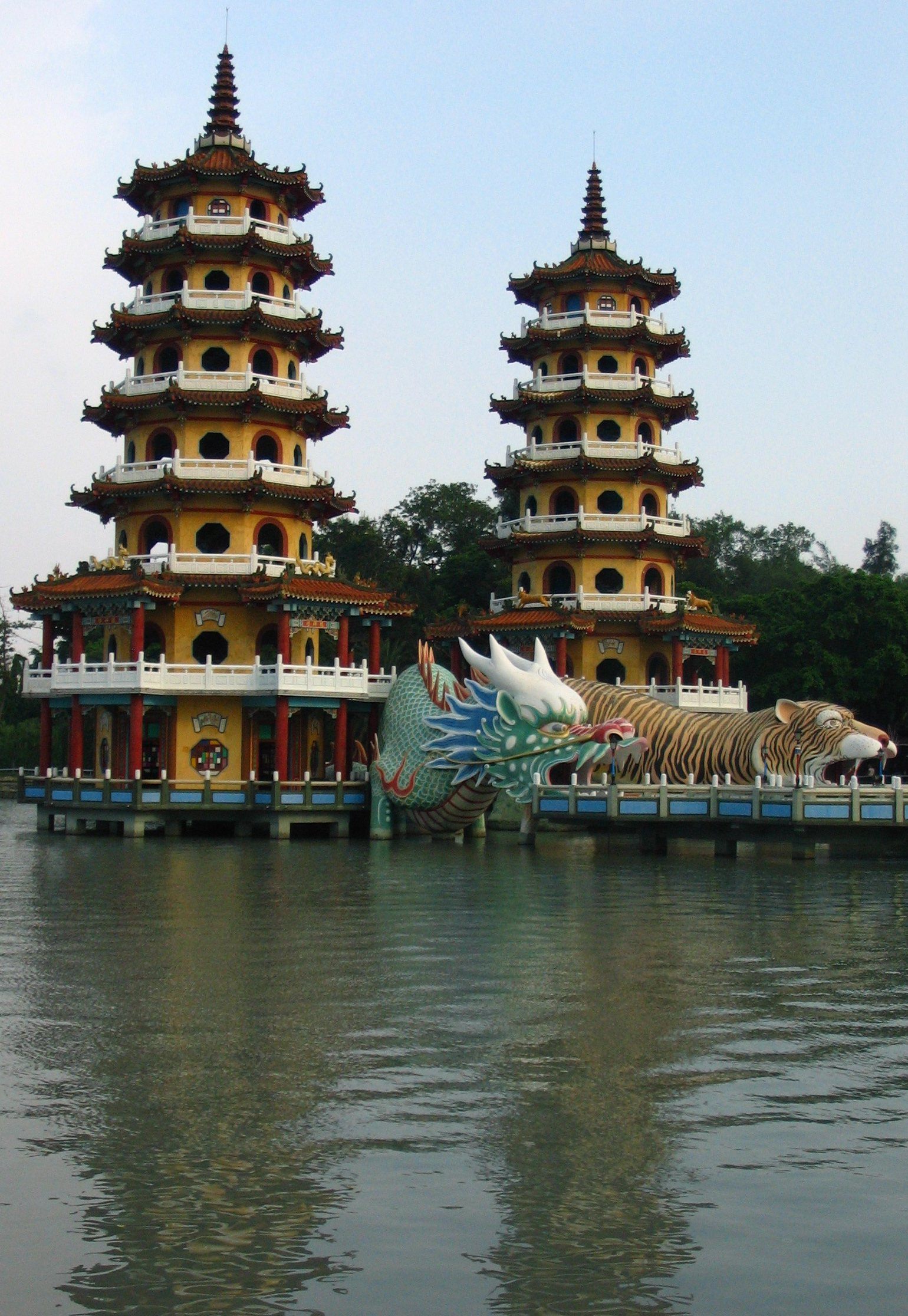 The Dragon and Tiger Pagodas on Lotus Lake in Kaohsiung (Tsoying District), Taiwan (Republic of China).